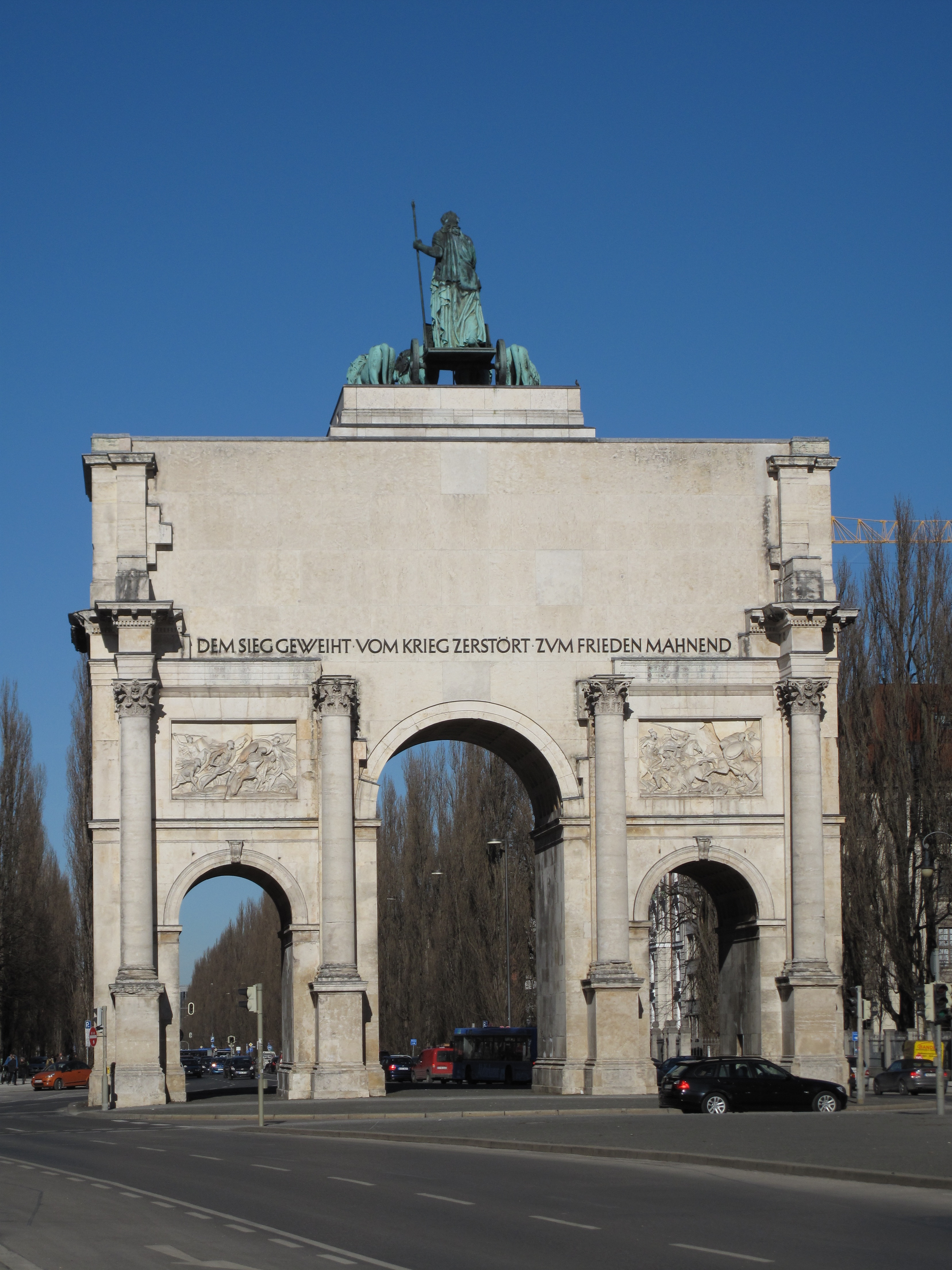 Siegestor in Munich, Germany